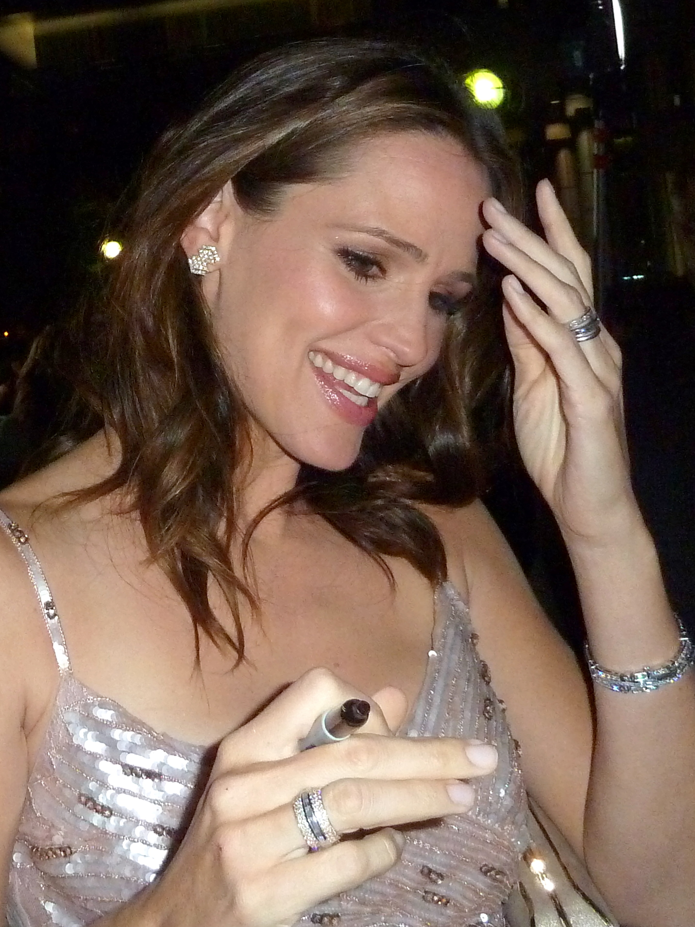 Jennifer Garner at the premiere of Butter, 2011 Toronto Film Festival